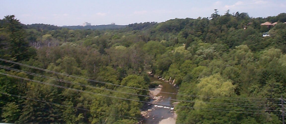 Highland Creek Valley, taken from the Kingston Road Bridge